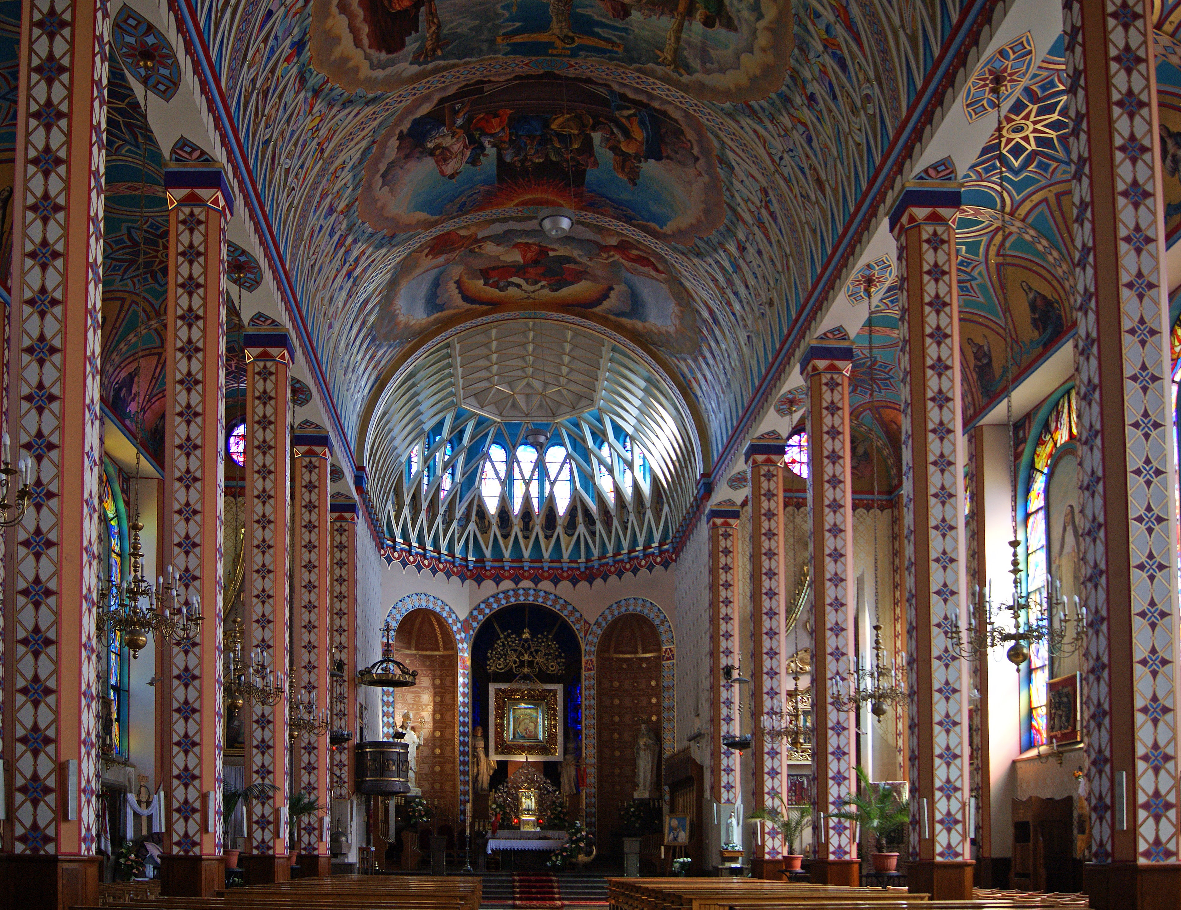 Our Lady of Good Counsel Church (inside), 35 Prosta street, Prokocim, Krakow, Poland